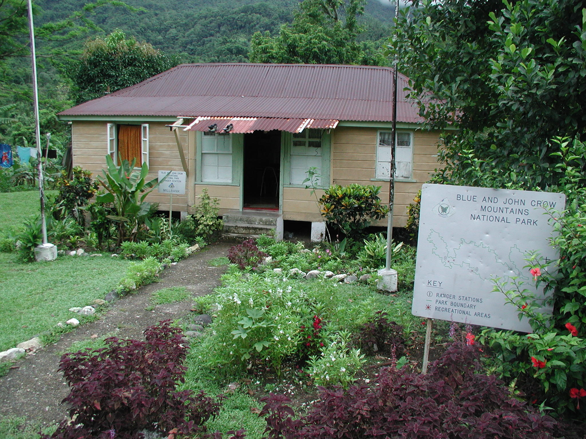 Blue Mountain / John Crow Mountain Ranger Station, Millbank, Jamaica. Click here to see where this photo was taken.